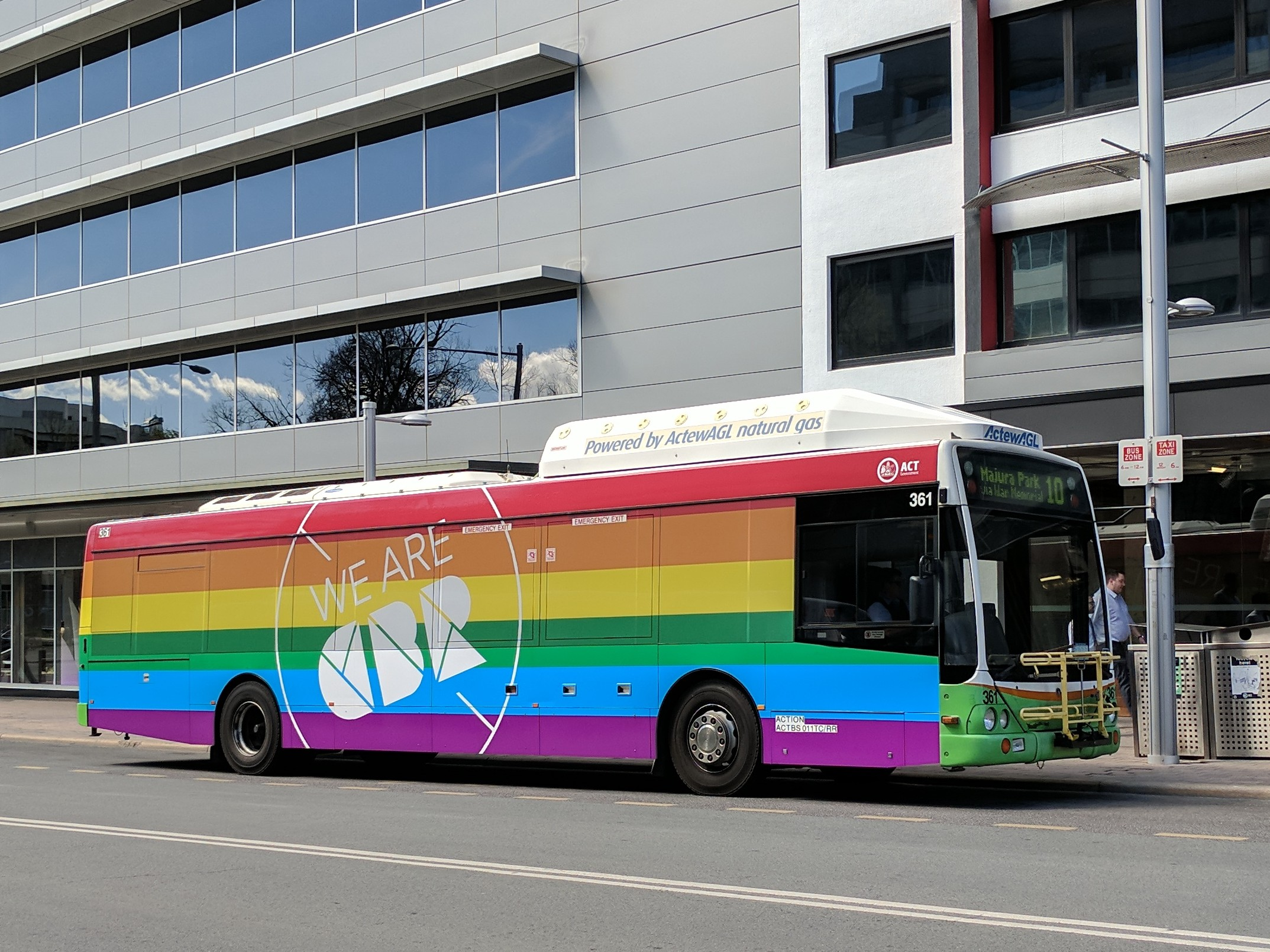 An ACTION bus with rainbow markings added as a sign of support for Canberra's LGBTIQ community from the ACT Government during the 2017 same sex marriage survey period